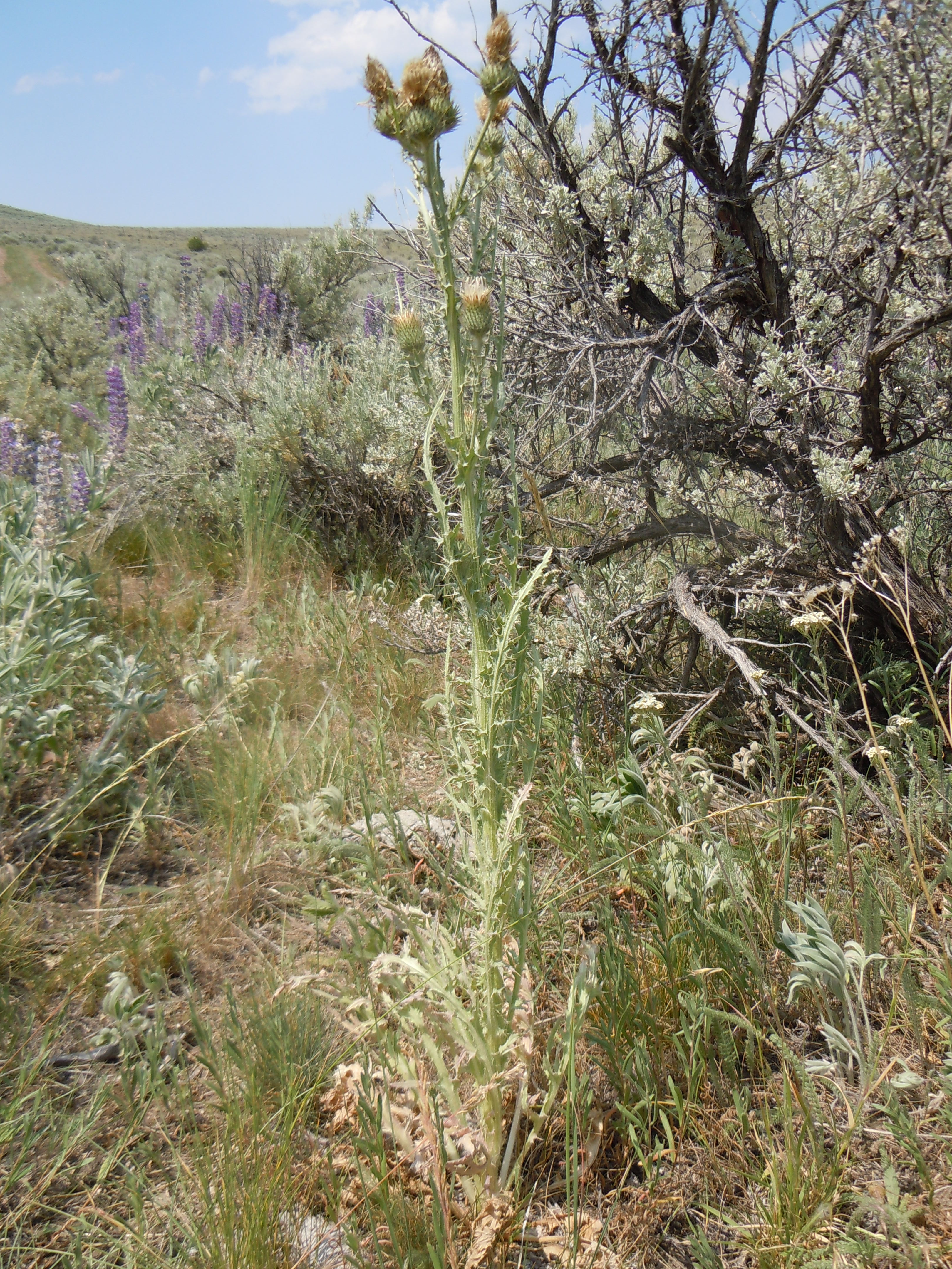 Cirsium canovirens is sometimes found in sagebrush steppe with high native plant cover as well as along adjacent roads that are seldom used or disturbed. This is one of the most common species in the sagebrush steppe of the Snake River plains and adjacent southwestern Montana and is impossible to distinguish from Cirsium subniveum.